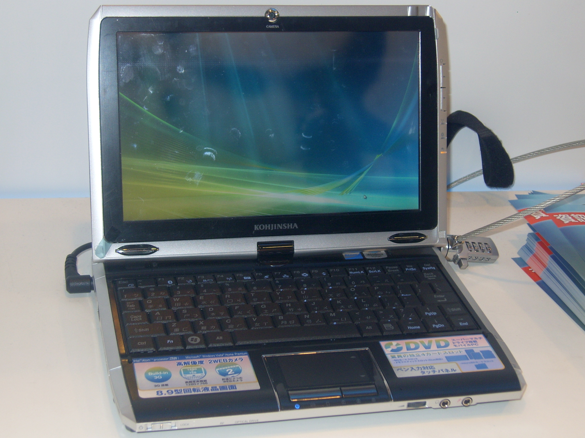 2008 Taipei IT Month: Kohjinsha SX series netbook in black.